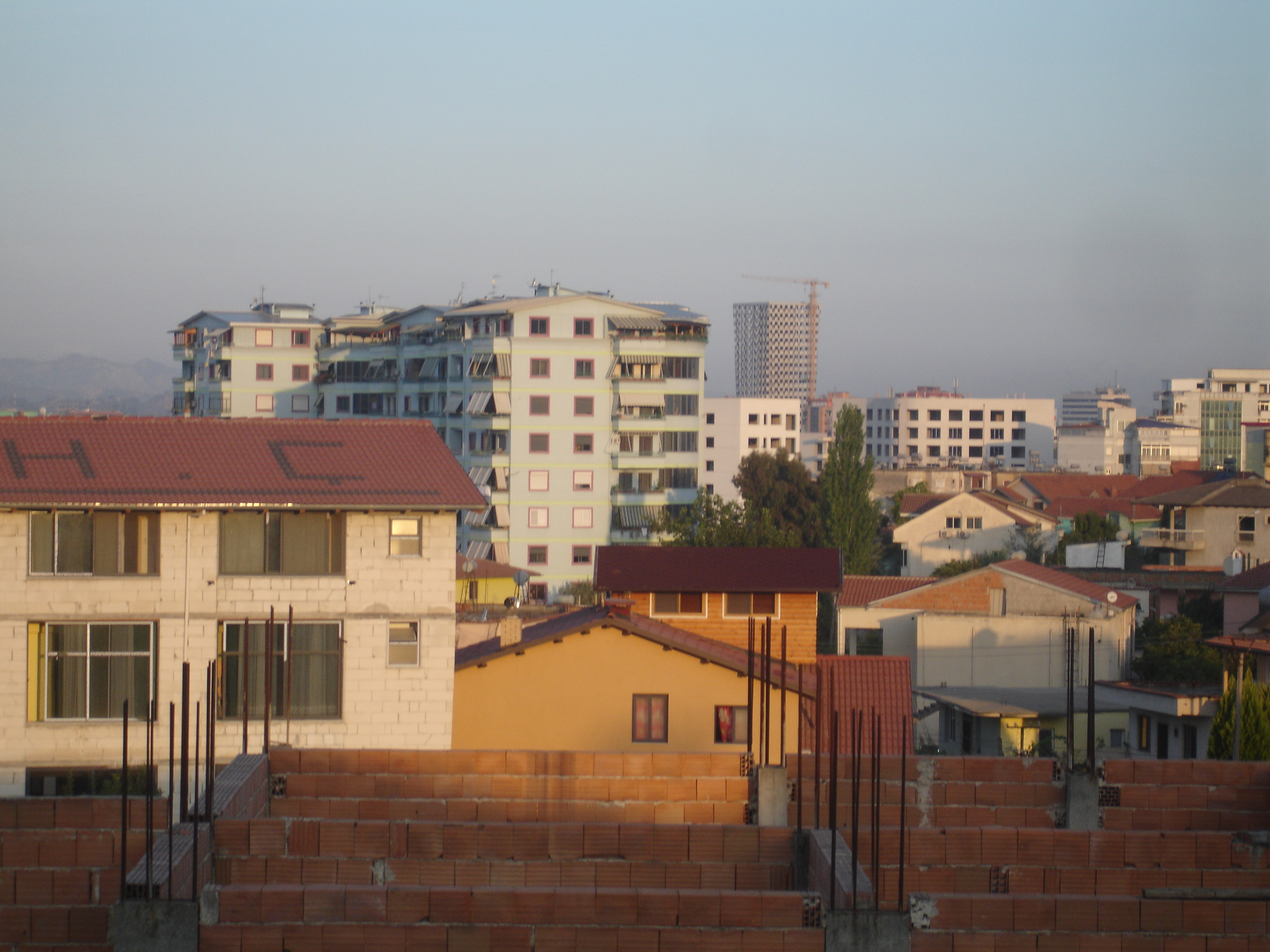 Development in Tirana